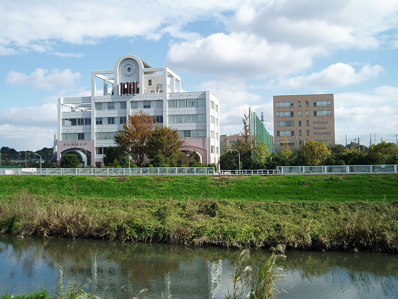 Kawaguchi Junior College (left) and Saitama Gakuen University (right). Located in Kawaguchi, Saitama Pref., Japan.